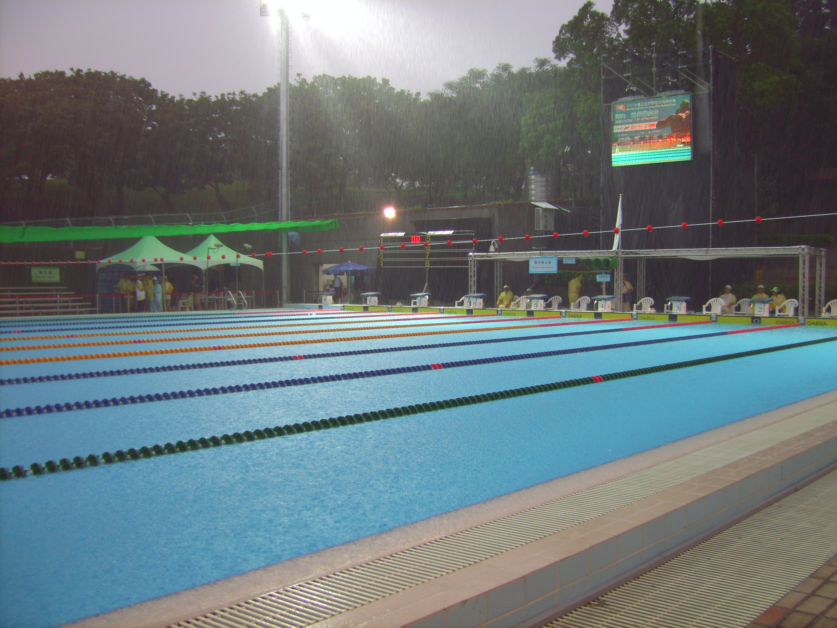 2007 World Deaf Swimming Championships: A bad weather at 3rd Matchday.